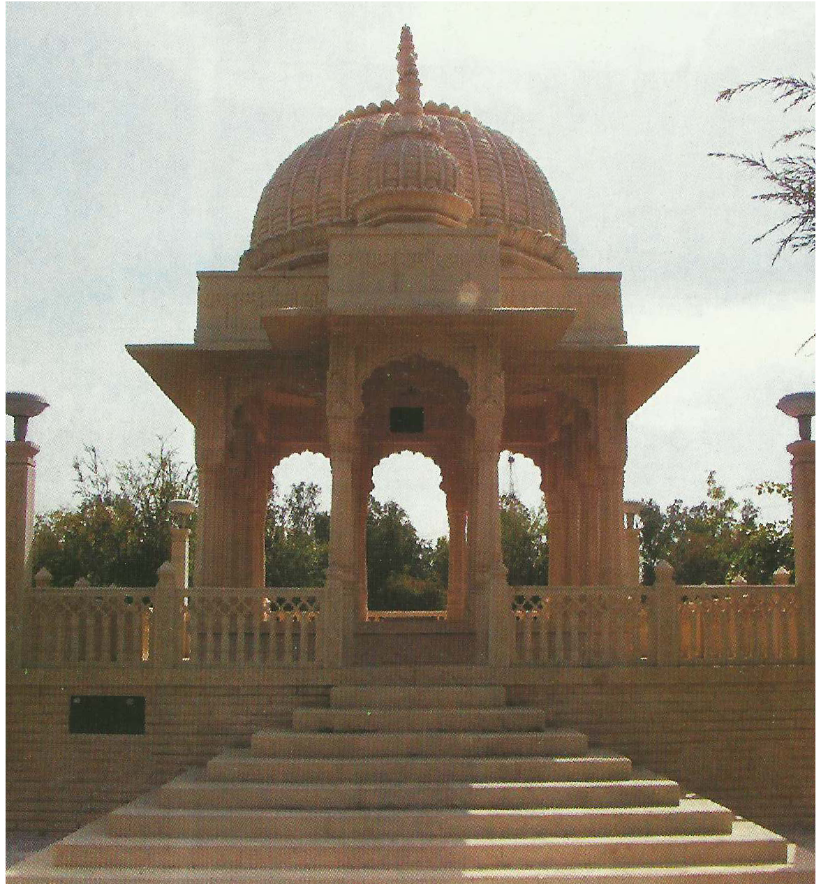 This is the samadhi of the 13th head of Ramsnehi Sampradaya, Swami Ji Shri Ramkishorji Maharaj. It is located in Ramniwas Dham, Shahpura, Bhilwara